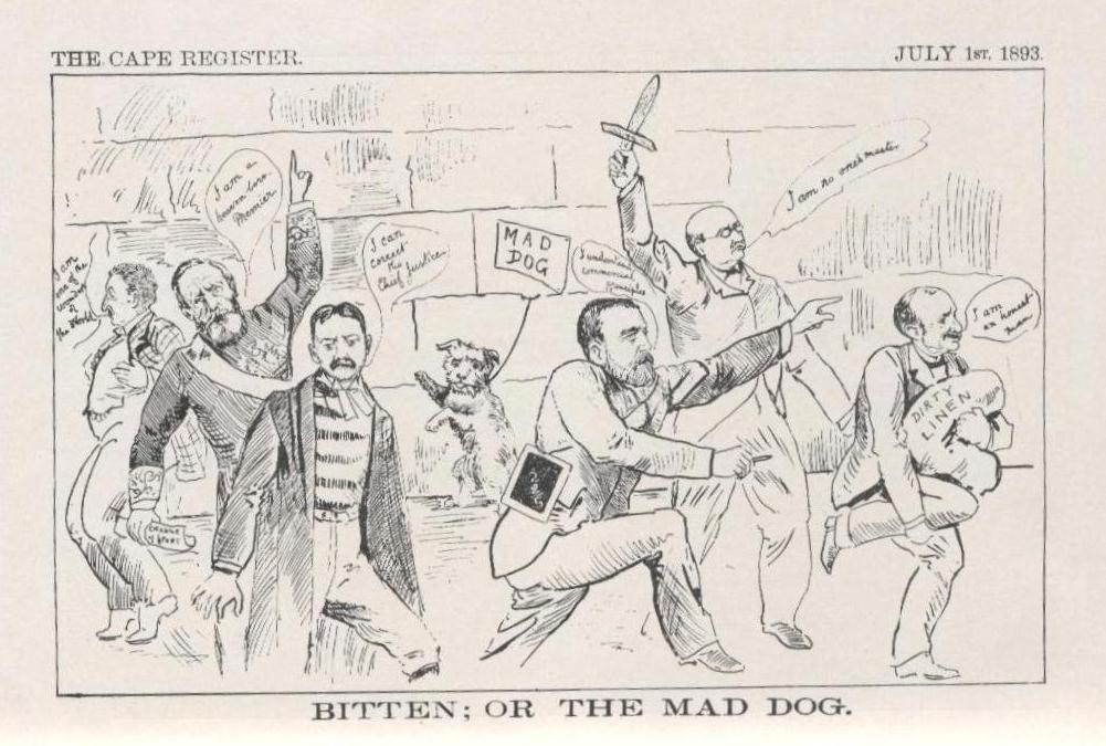 Caricature of the changes in Rhodes's government during the Logan Corruption Scandal. 1893. From right to left, James Sivewright, JW Sauer, William Schreiner, Cecil Rhodes, Gordon Sprigg, (unknown).